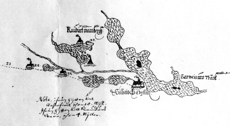 The silver furnace at Silbojokk on a map from 1646.